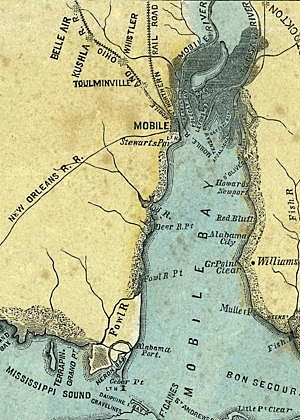 This is a cropped version of Image:Battle of Mobile Bay map.png, in order to clearly show the location of Toulminville northwest of Mobile, Alabama. Short Title: H.H. Lloyd & Co's Campaign Military Charts Showing The Principal Strategic Places Of Interest. Publisher: New York: H.H. Lloyd & Co. Full Title: H.H. Lloyd & Co's Campaign Military Charts Showing The Principal Strategic Places Of Interest. Engraved Expressly To Meet A Public Want During The Present War. Compiled From Official Data By Egbert L. Viele, Military and Civil Engineer; and Charles Haskins. Published Under The Auspices Of The American Geographical And Statistical Society. Entered ... 1861 by H.H. Lloyd & Co. H.H. Lloyd & Co's Military Charts. Sixteen Maps On One Sheet.